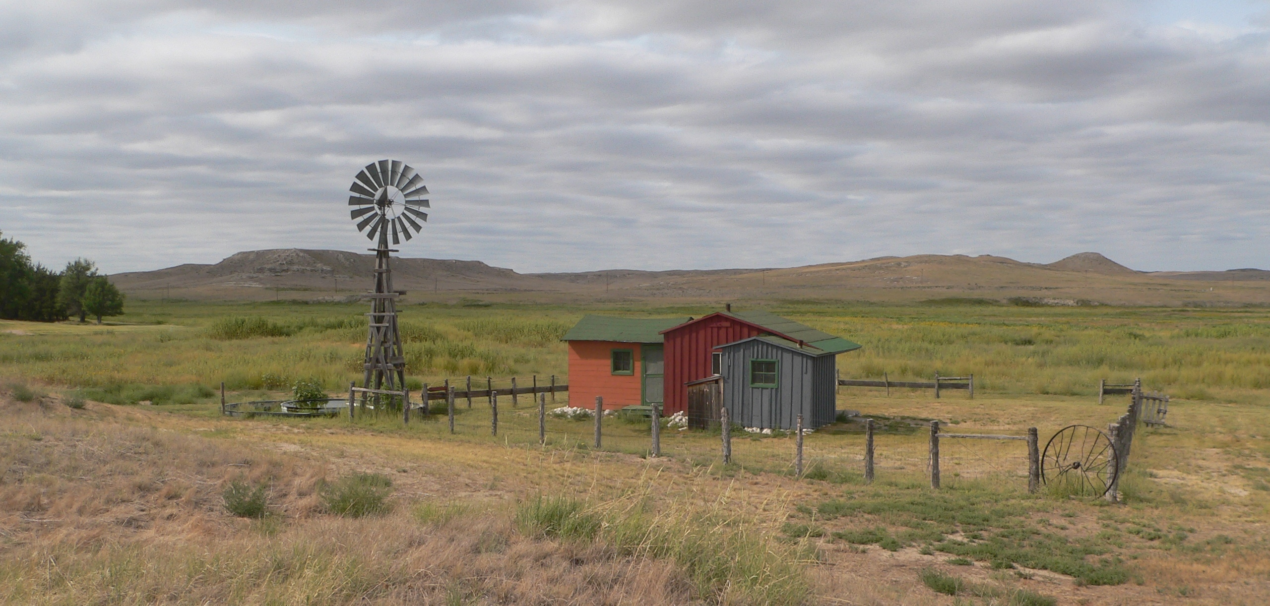 Harold J. Cook Homestead Cabin, more commonly known as Bone Cabin, located on south side of Niobrara River at Agate Fossil Beds National Monument.